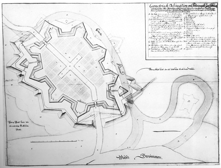 Map of swedish city / fortress of Carlsburg at the junction of the river Geeste with the river Weser. The layout of the city was designed by Erik Dahlberg around 1680, modifying the original plan by Jean Mell from 1672.